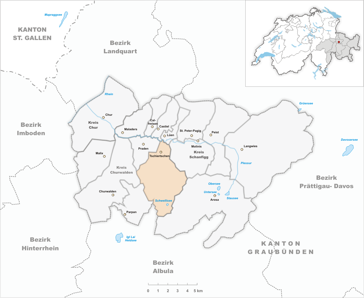 Municipality Tschiertschen